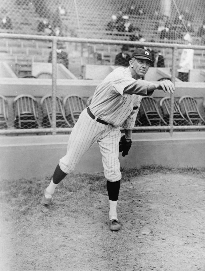 Raymond Benjamin Caldwell, Yankee pitcher, full-length portrait, facing right, with right arm extended outward after throwing baseball.